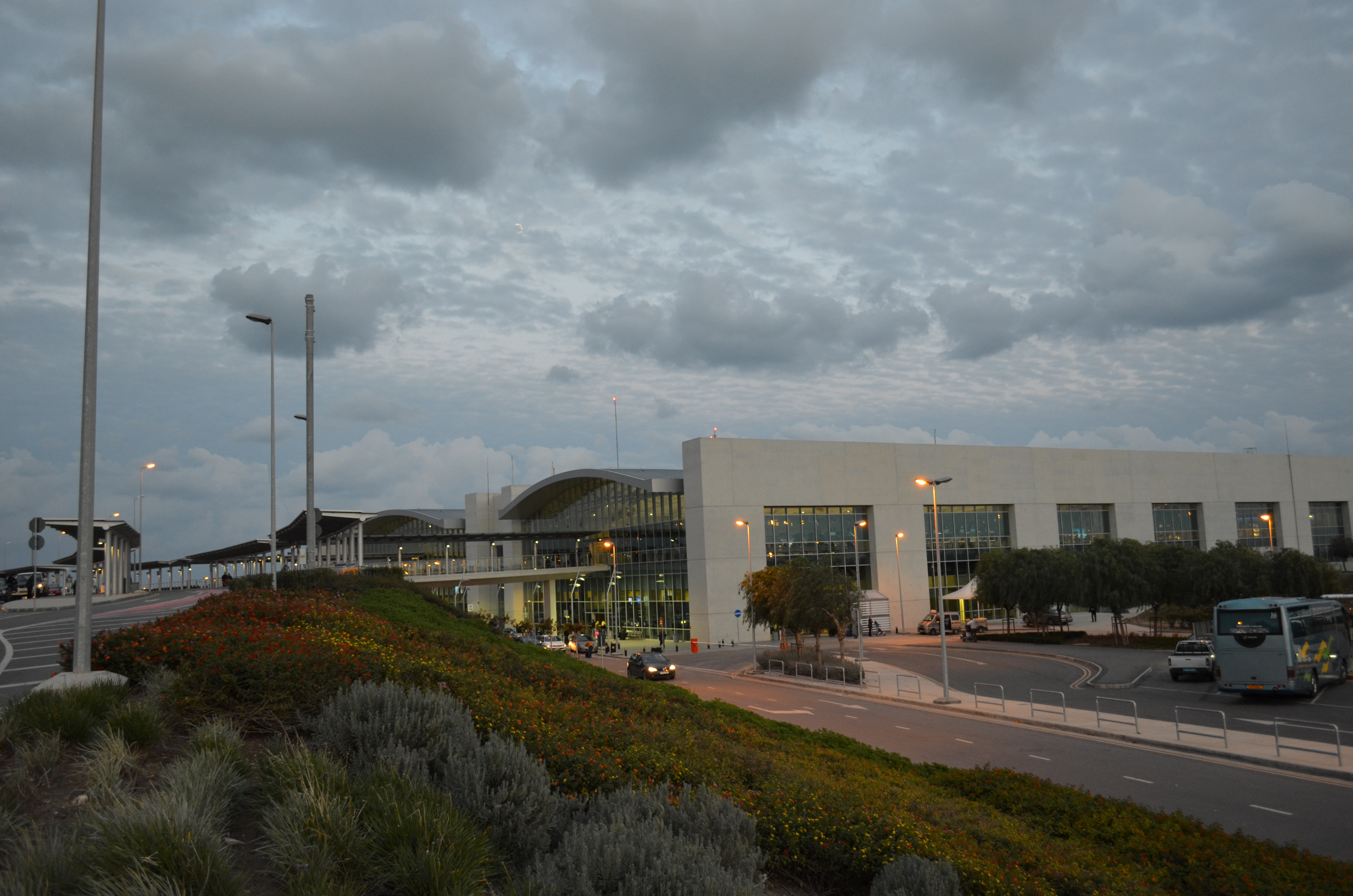 Larnaca Airport